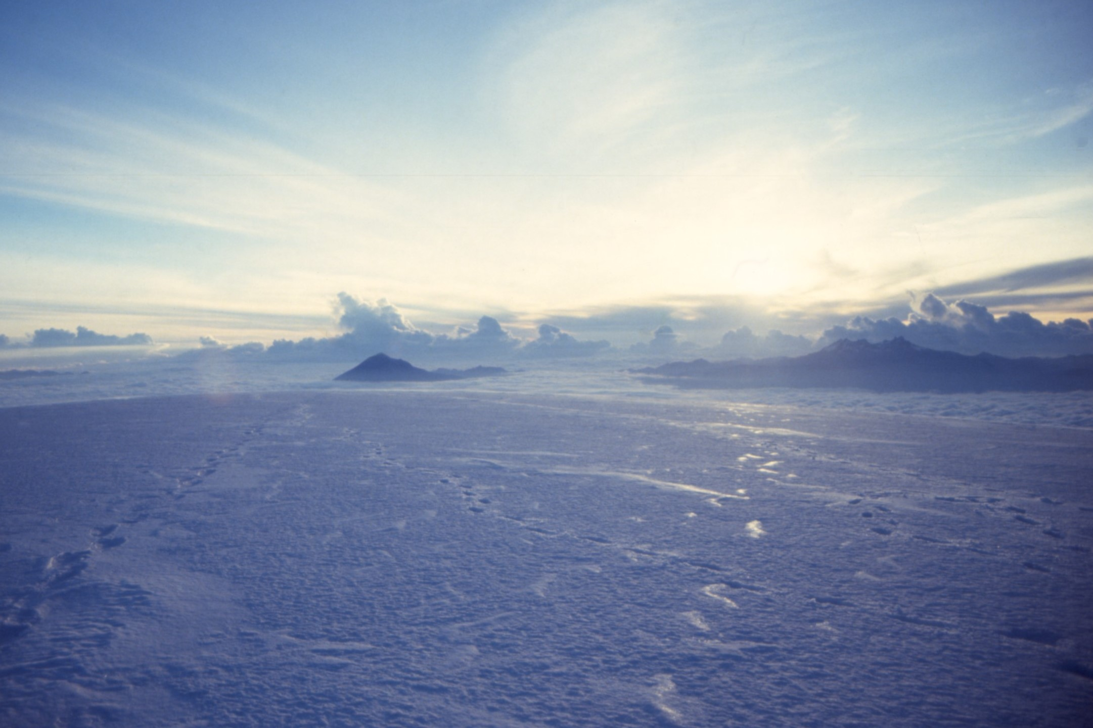 On the summit of Chimborazo looking eastward towards Tungurahua and El Altar